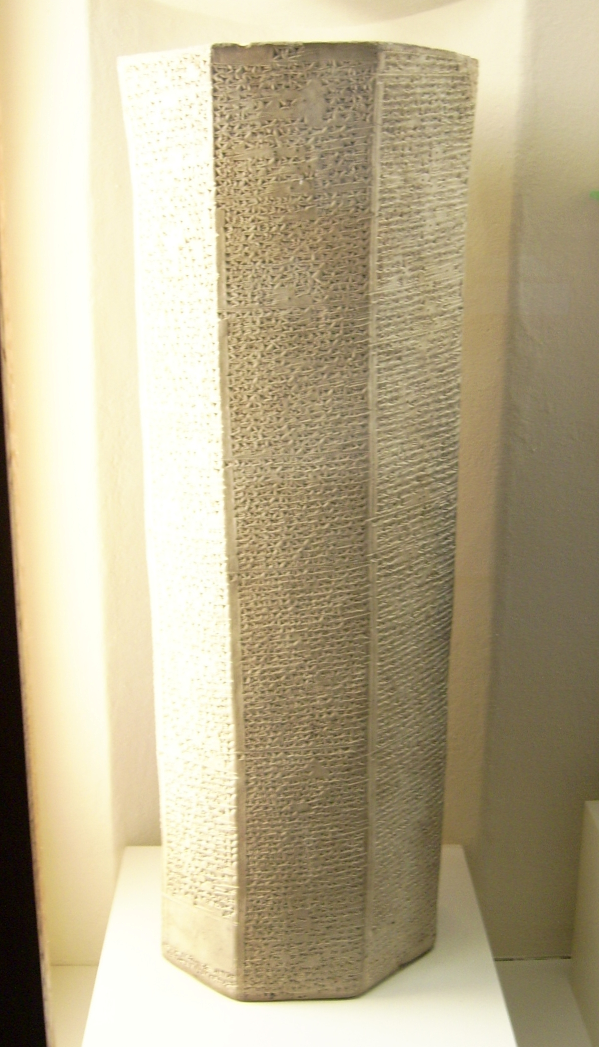 Prism with foundation inscription of assyrian king Tiglath-Pileser I (1114-1076 BC), dated 1109 BC, found in Assur, Anu-Adad Temple. Report of restoration work on the temple.